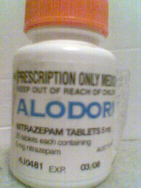 Nokia 6230 photo of a bottle of Nitrazepam under the trade name of Alodorm, containing twenty-five 5mg tablets. This bottle was prescribed in Australia legally by my long established qualified GP.